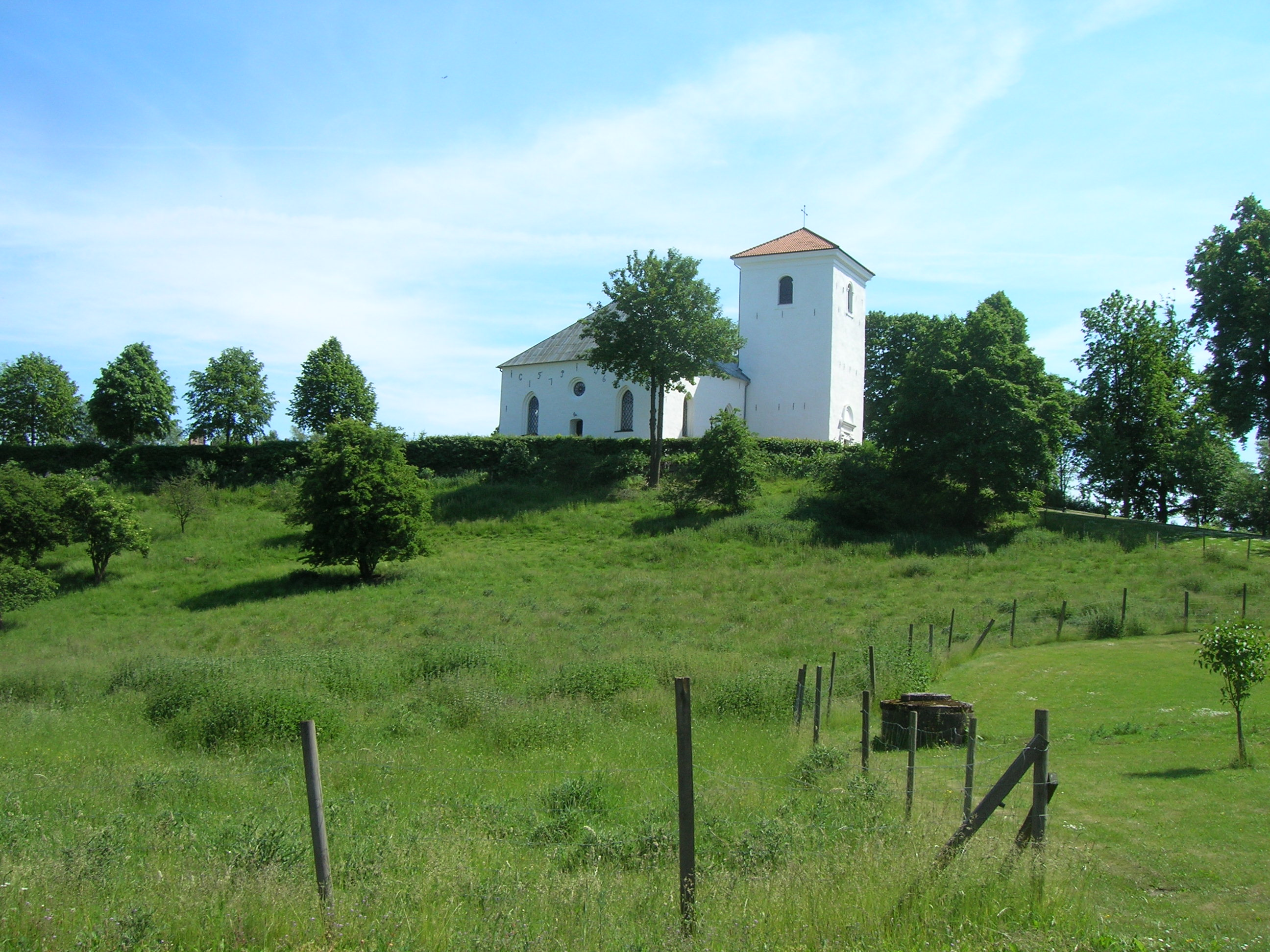 Andrarum Church, Tomelilla Municipality, Scania, Diocese of Lund, Sweden.